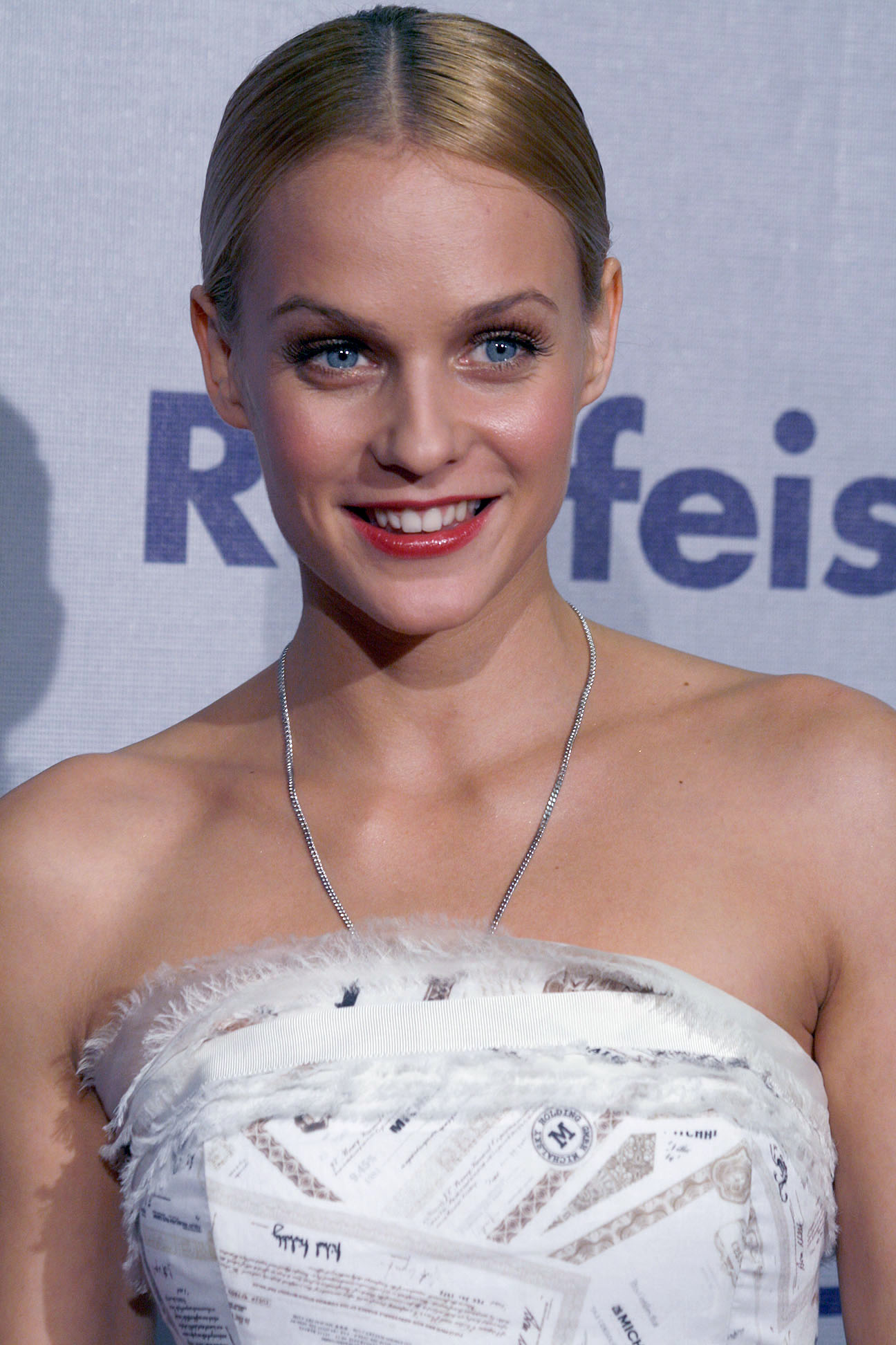 Mirjam Weichselbraun at the award show for the Austrian Sportspersonalities of the year 2009.